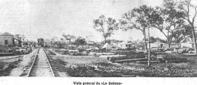 A view of La Sabana town, Chaco, published after the famous indian attack.